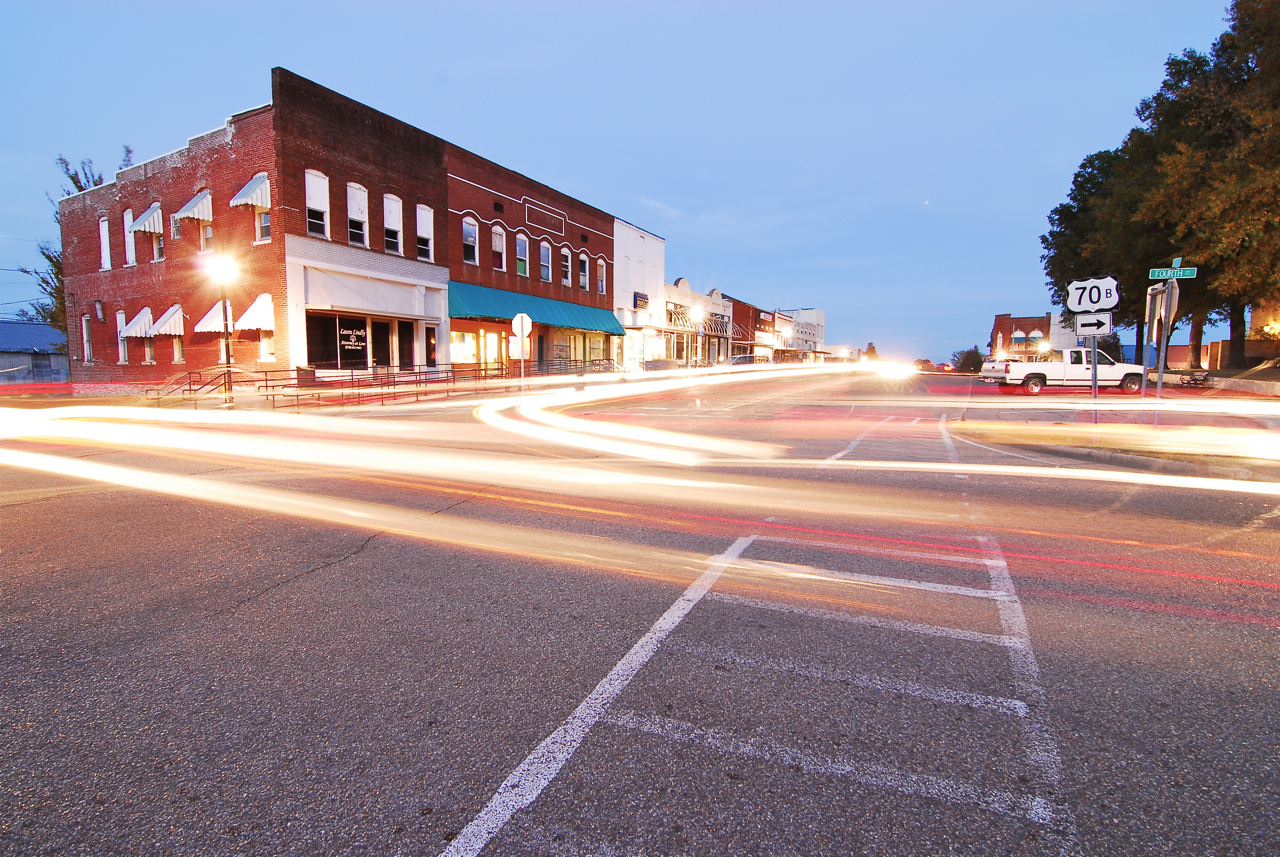 Historic downtown DeQueen in November of 2011